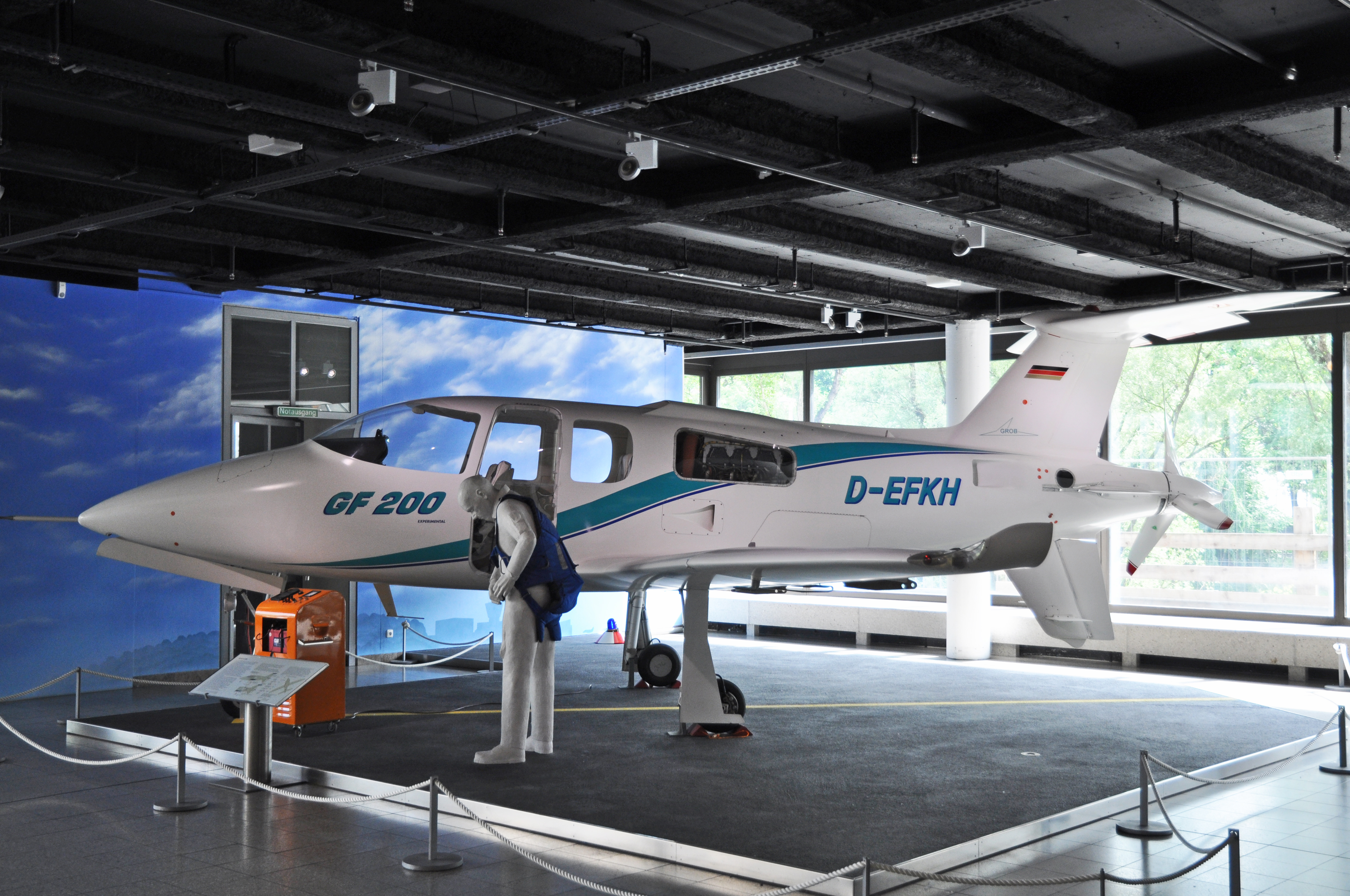 Grob GF 200 in the Deutsches Museum, Munich